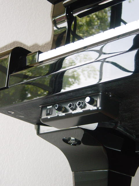 The Synthesizer control unit of the Disklavier Mark III. This picture (looking up from the floor) shows one component of the Yamaha Disklavier player piano. The unit mounted under the left side of the piano keyboard controls the audio output of the acoustic piano and the synthesizer. From left to right are: Silence button; silencer indicator; knob for volume control; two headphone sockets; knob for reverb control. When the silence button is pressed, the hammers will not hit the acoustic piano strings. The music will then be played by the synthesizer. The audio will come out on the two speakers under the piano, or the headphones if plugged in, or via the AUX line-out port to an external stereo sound system. Most components of the system are out of sight. Other components include a row of solenoids and optical sensors mounted behind each and every piano key, the synthesizer for other non-piano MIDI voices, amplifier and two speakers mounted under the sound board.